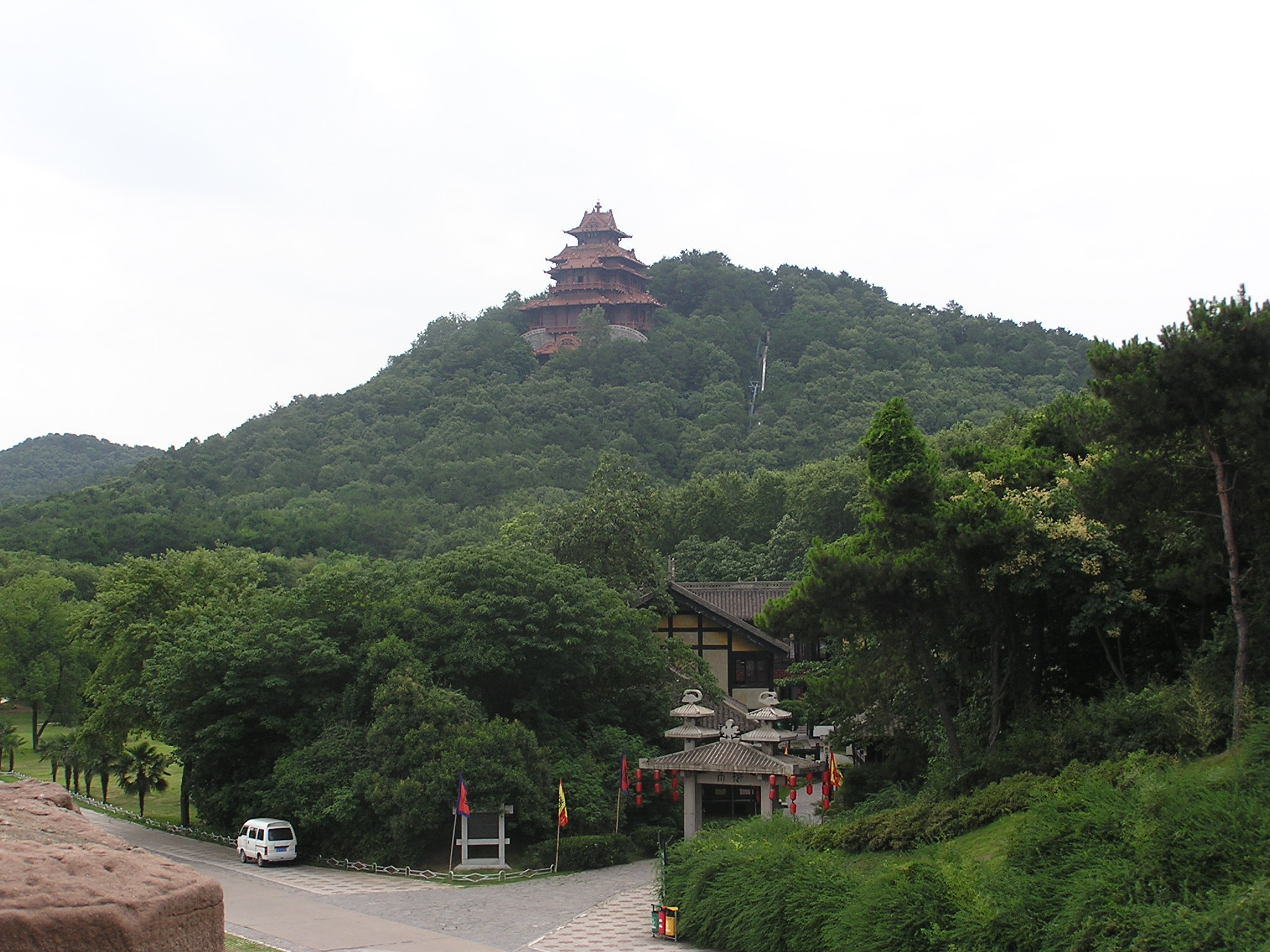 Moshan hill at the Eastern Lake in Wuhan.